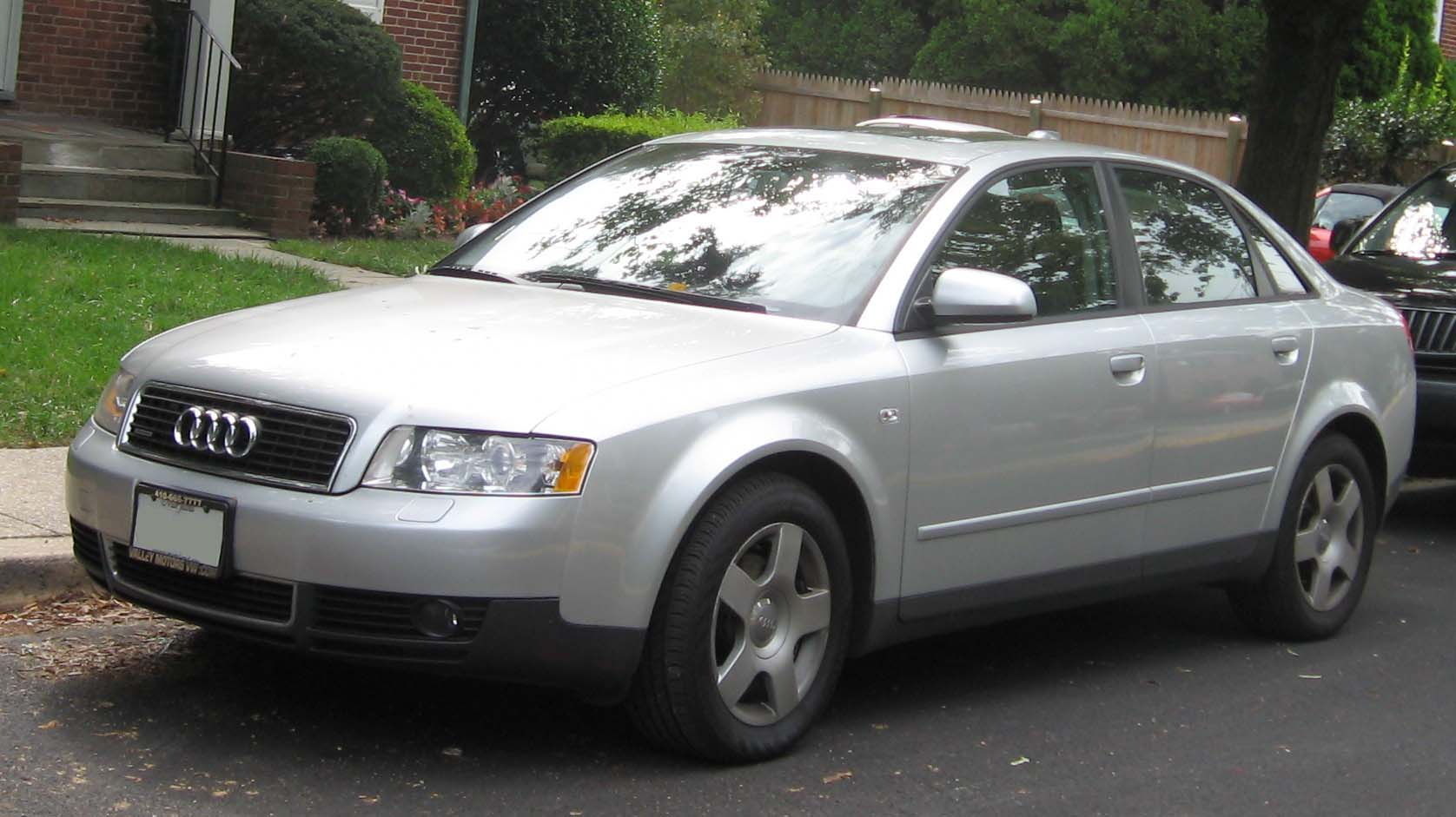 2002-2005 Audi A4 photographed in College Park, Maryland, USA.